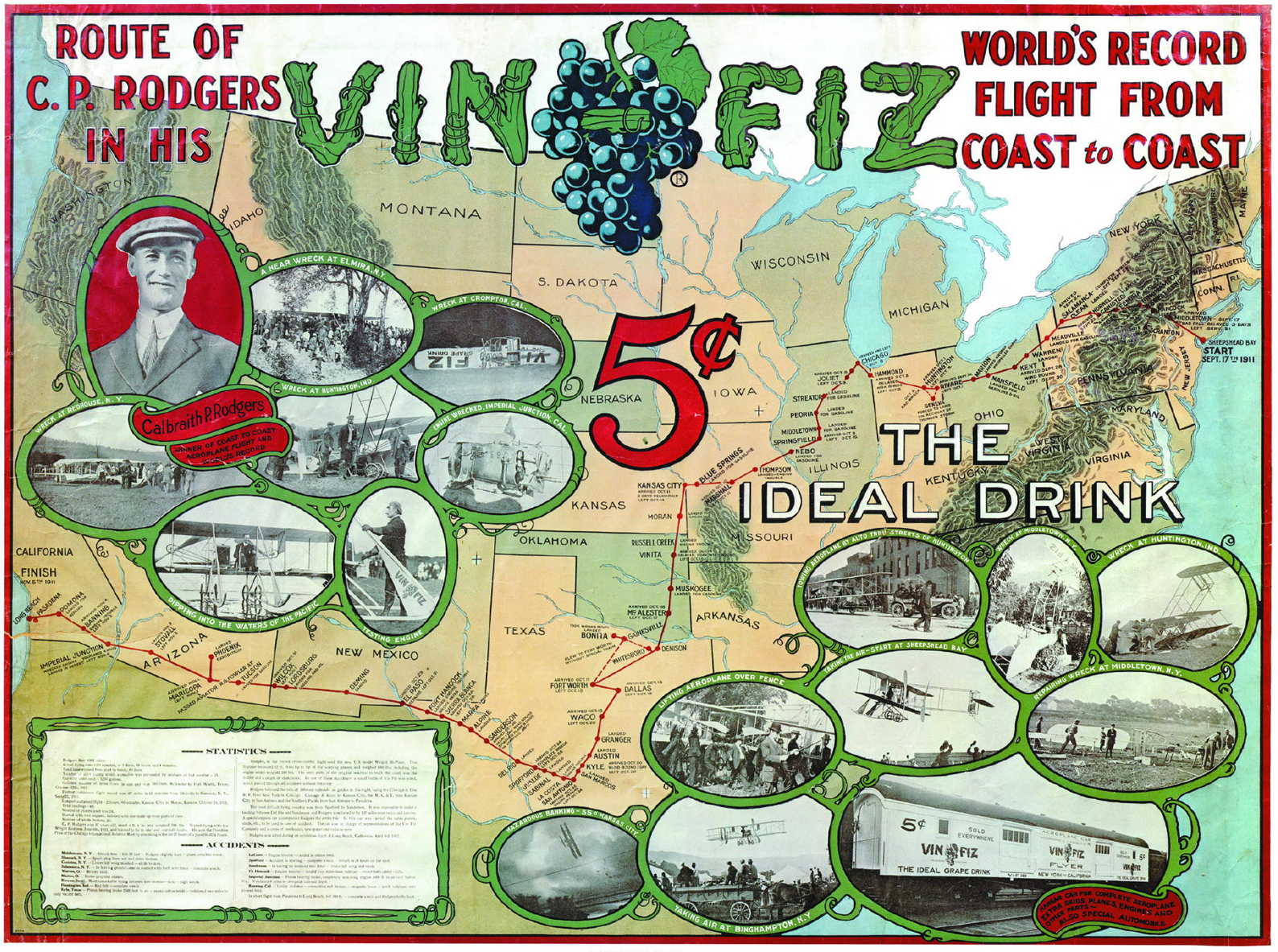 An advertisment poster celebrating the first coast to coast flight across the U.S. Calbraith Rodgers flew east to west between september and december 1911 on a Wright Model EX; the flight was sponsored by the Armour Meats Plant of Chicago to advertise the "Vin Fiz" soft drink.[1] Poster published in 1912.[2]